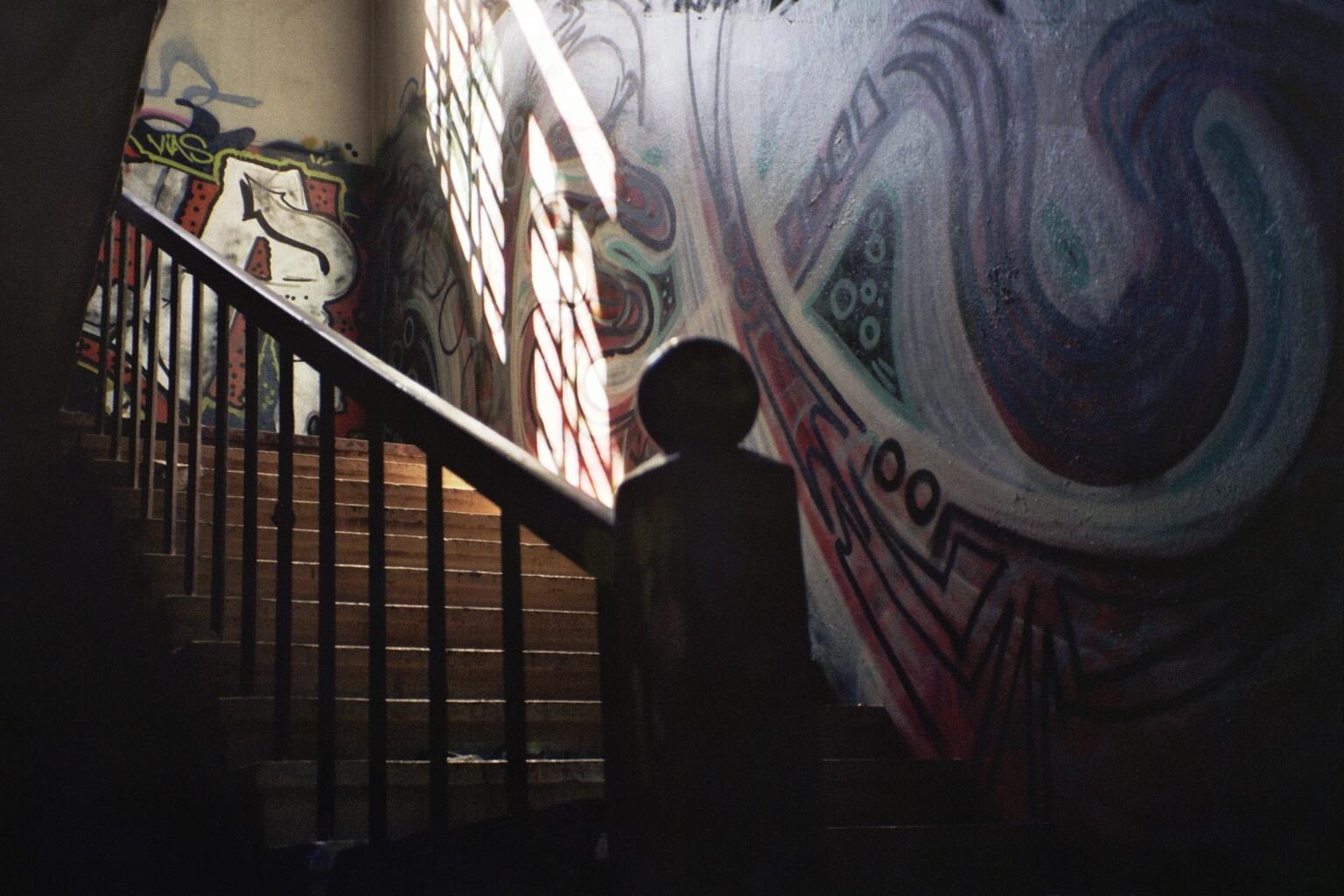 Graffiti inside a former match factory in the Särkänniemi district of Tampere, Finland.